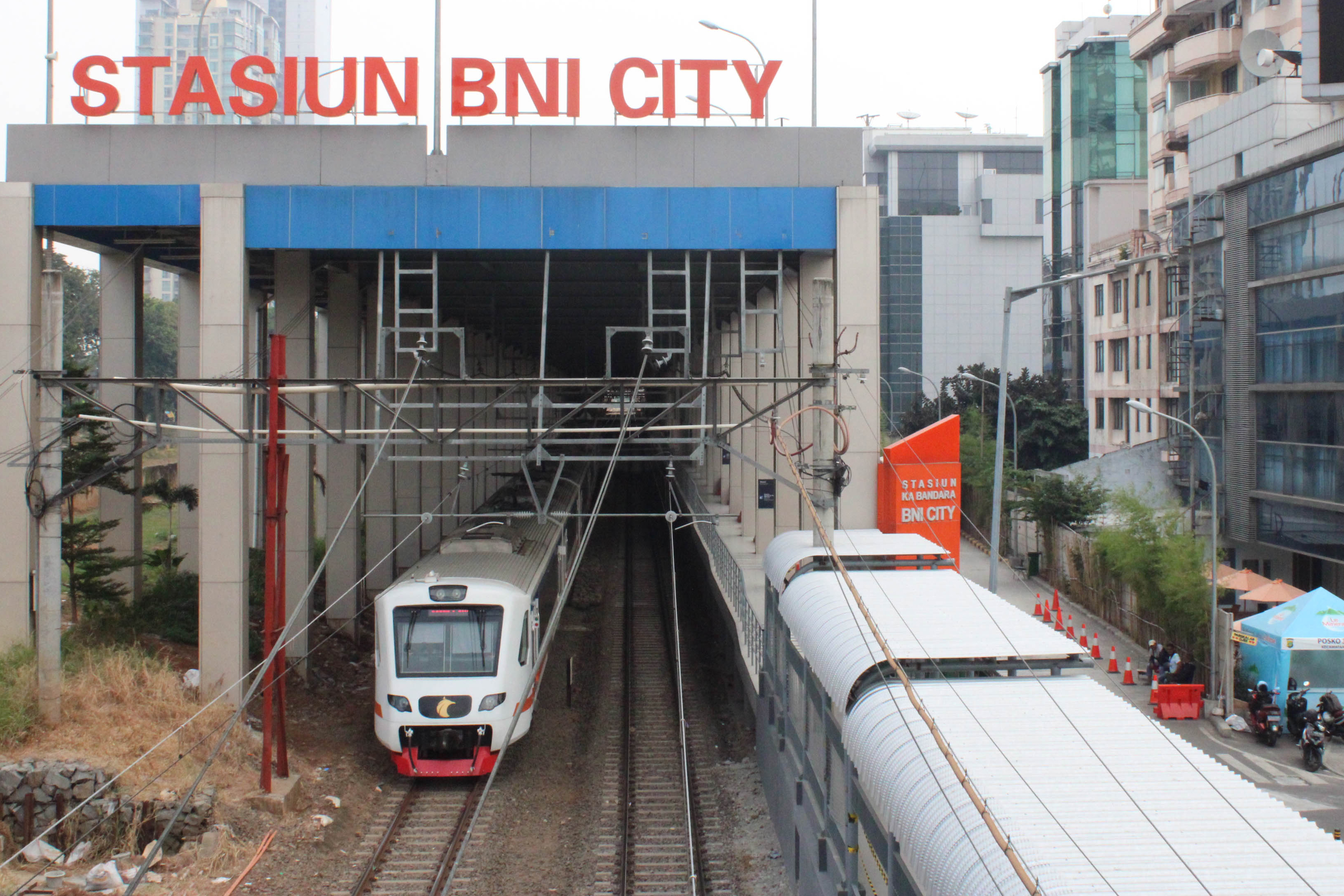 Railink leaving BNI City Station